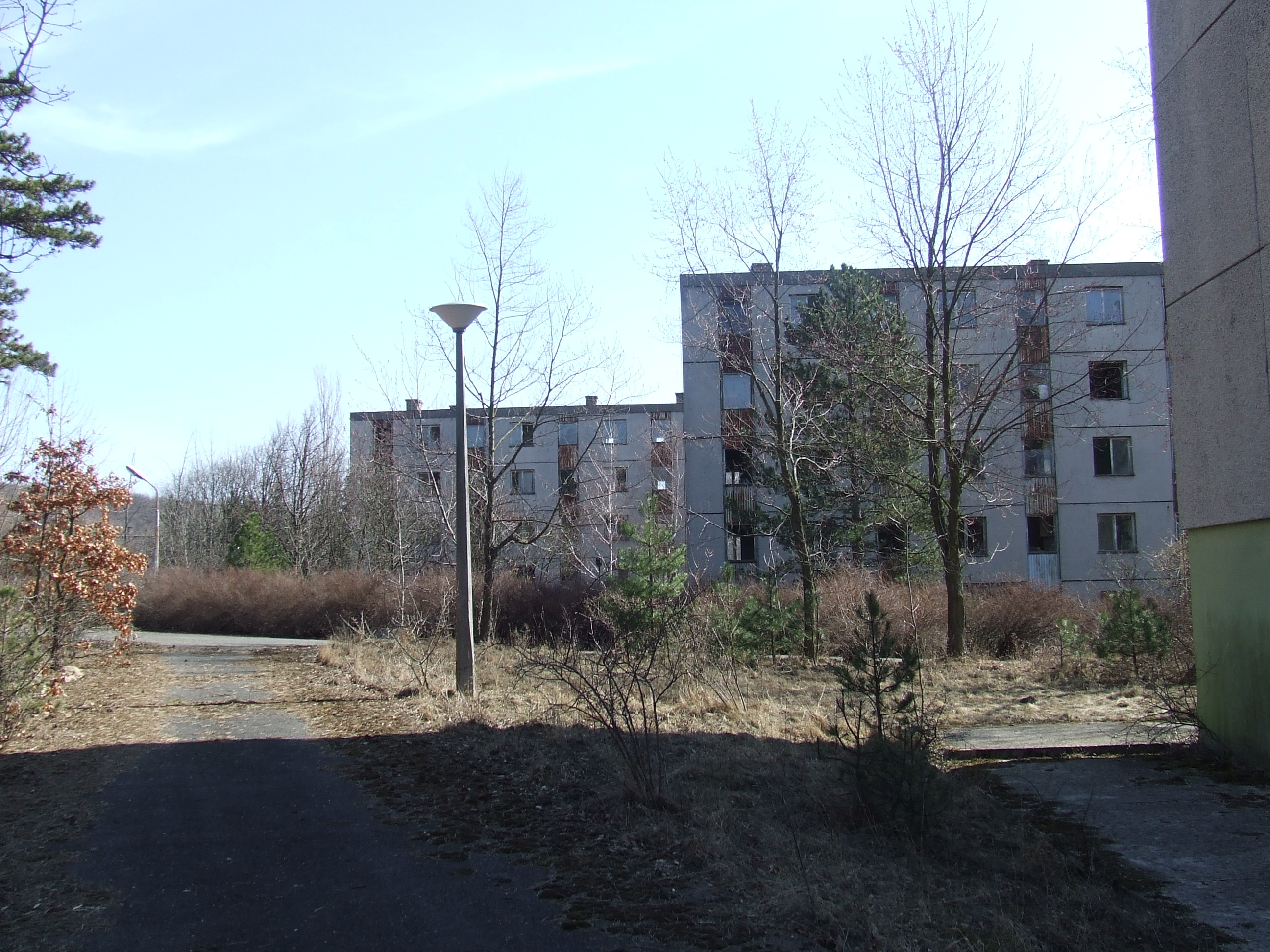 Kis-Moszkva (Small Moscow), abandoned Russian military town in Hungary, near Tóthvázsony.